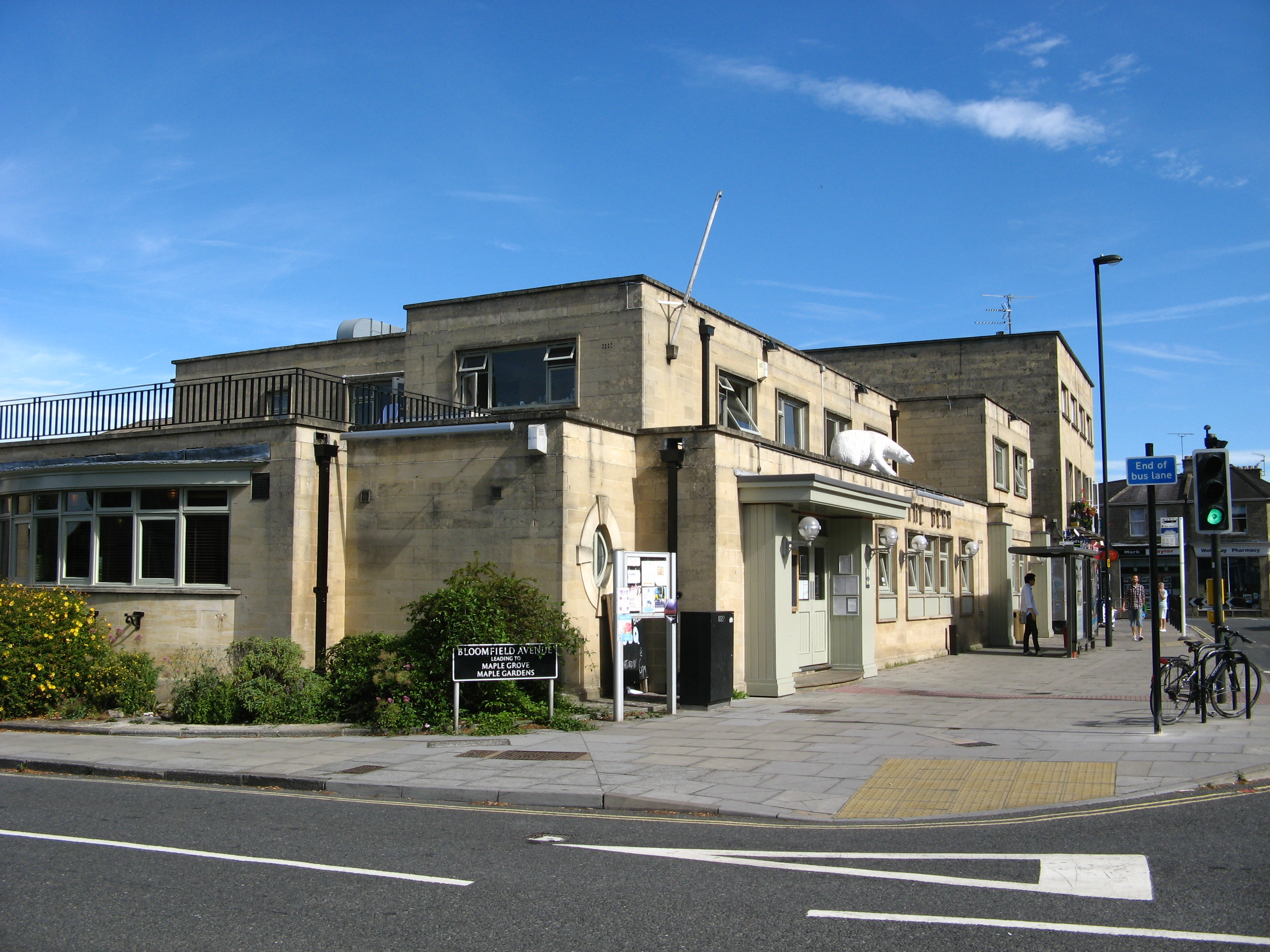 The Bear, a pub in Bear Flat, Bath, in 2010. It is well known for the "statue" of a polar bear above the frontage.